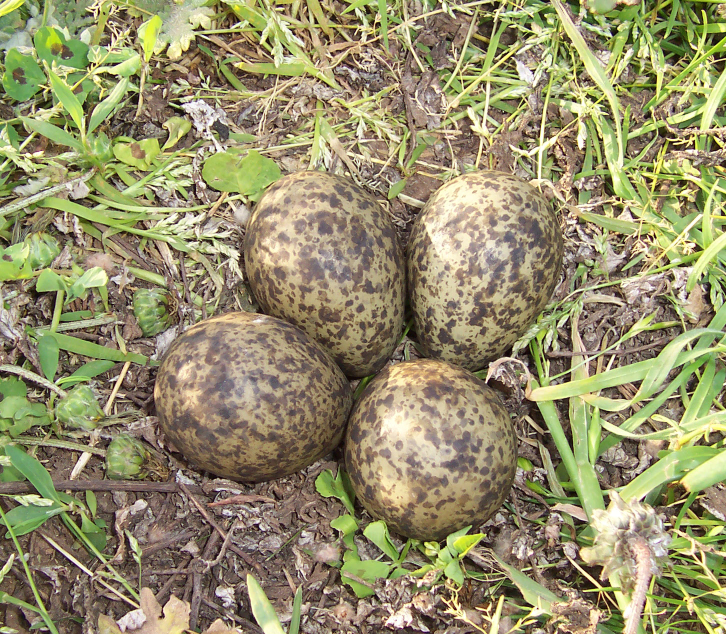 Plover Eggs Subject to disclaimers. Subject to disclaimers.